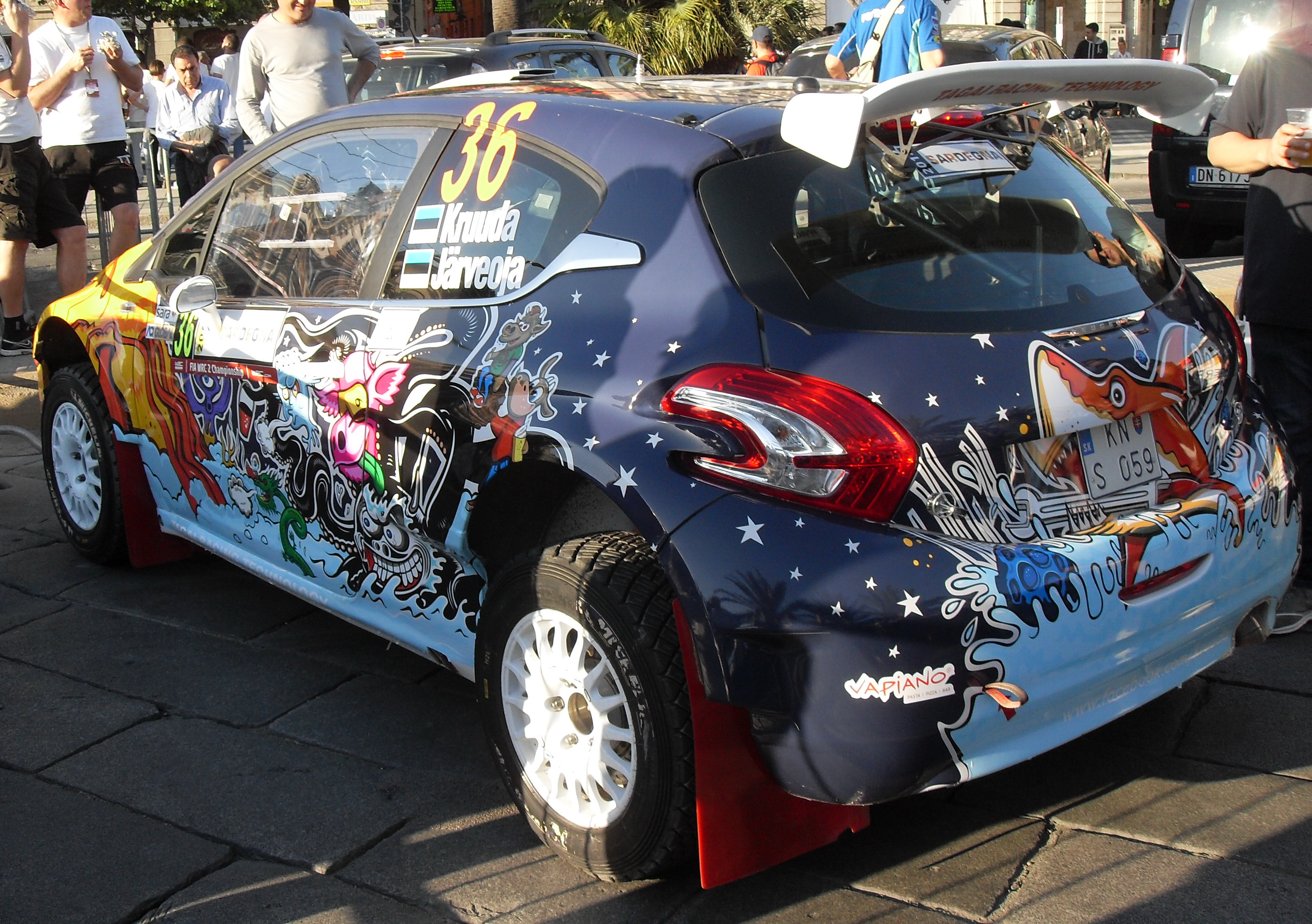 Peugeot 208 T16 of Kruuda/Järveoja before PS1-Cagliari at the 2014 Rally Italia Sardinia